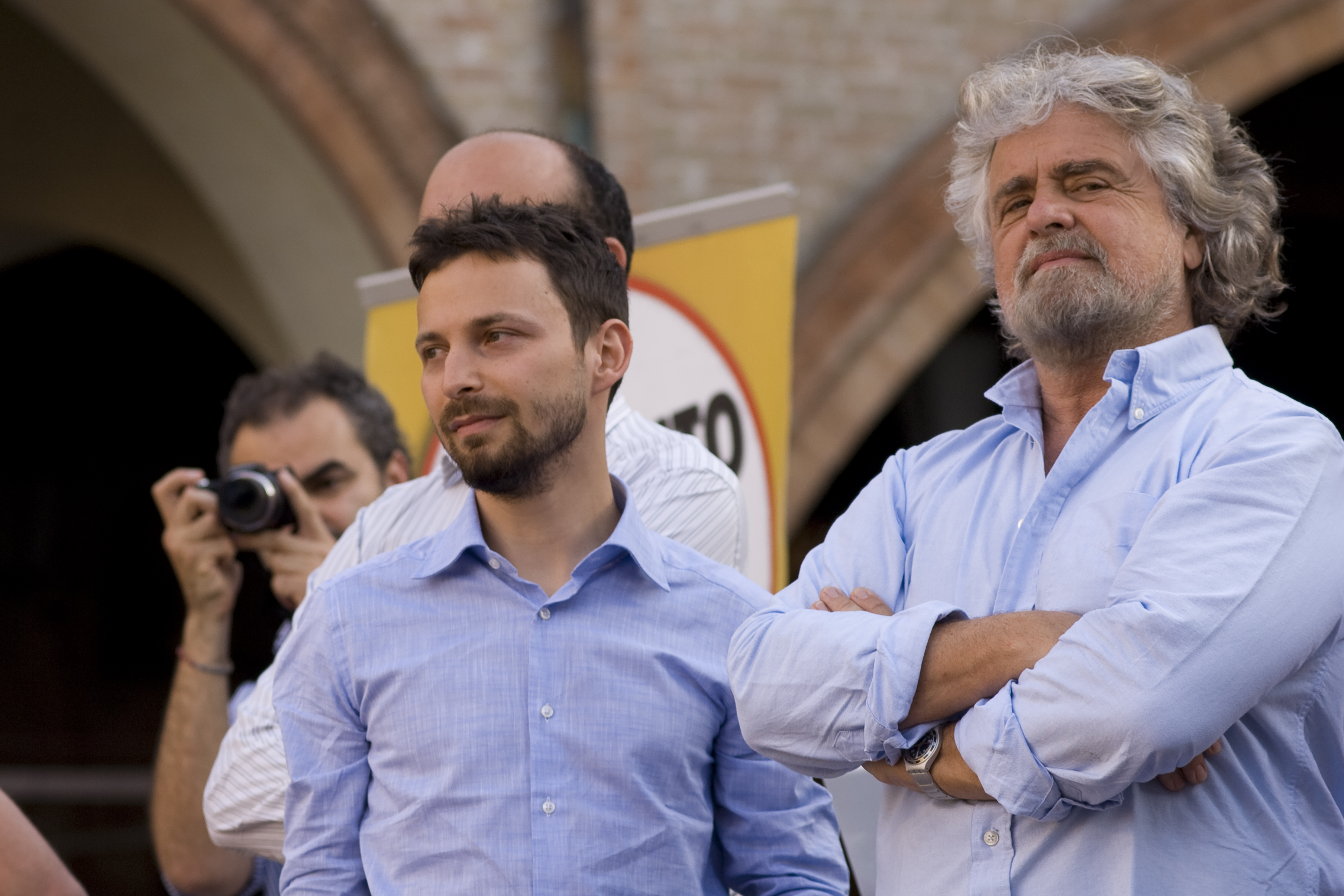 Giovanni Favia and Beppe Grillo